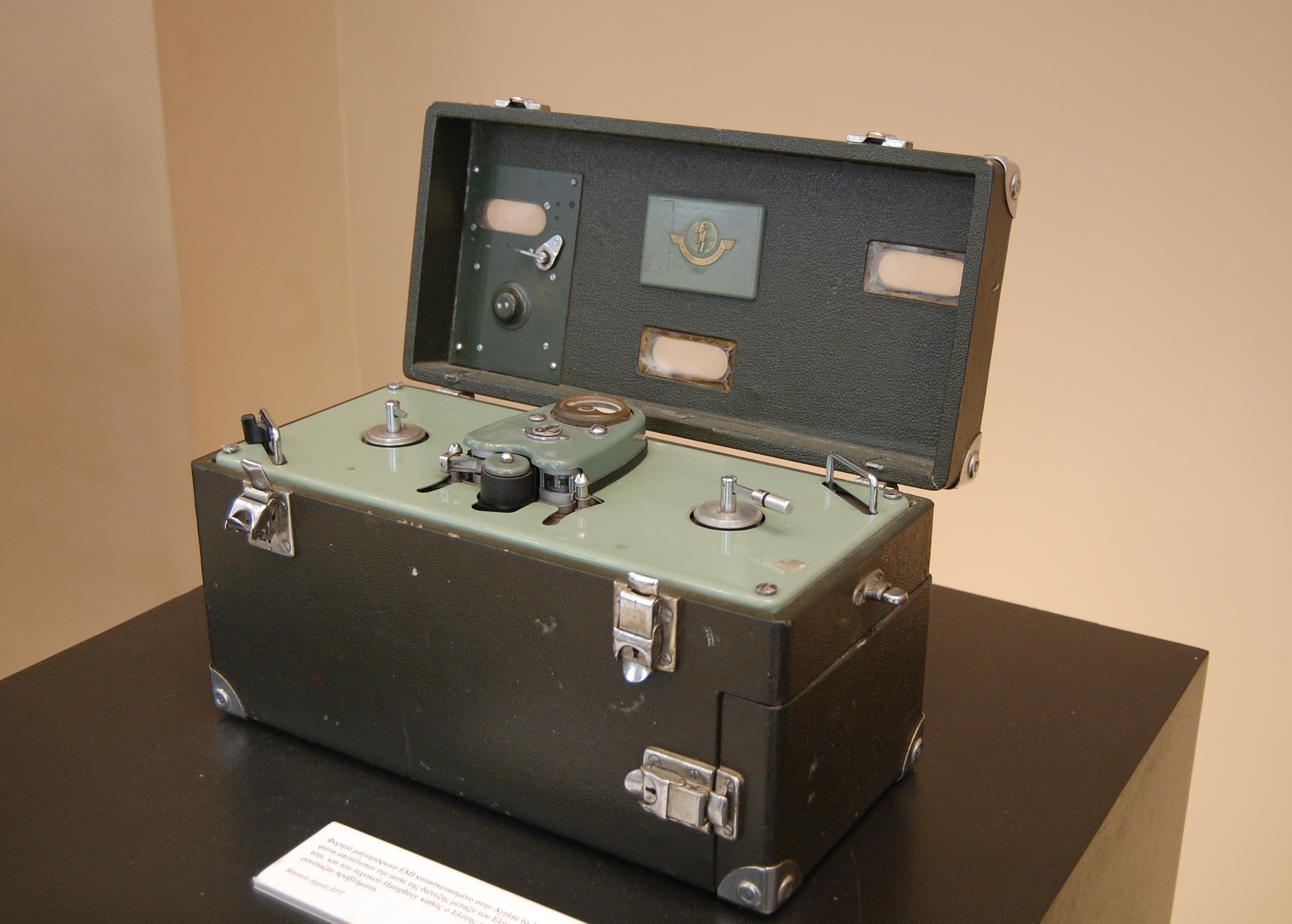 An EMI portable reel-to-reel tape recorder. Made in England in 1954. Used by the Greek National Radio.